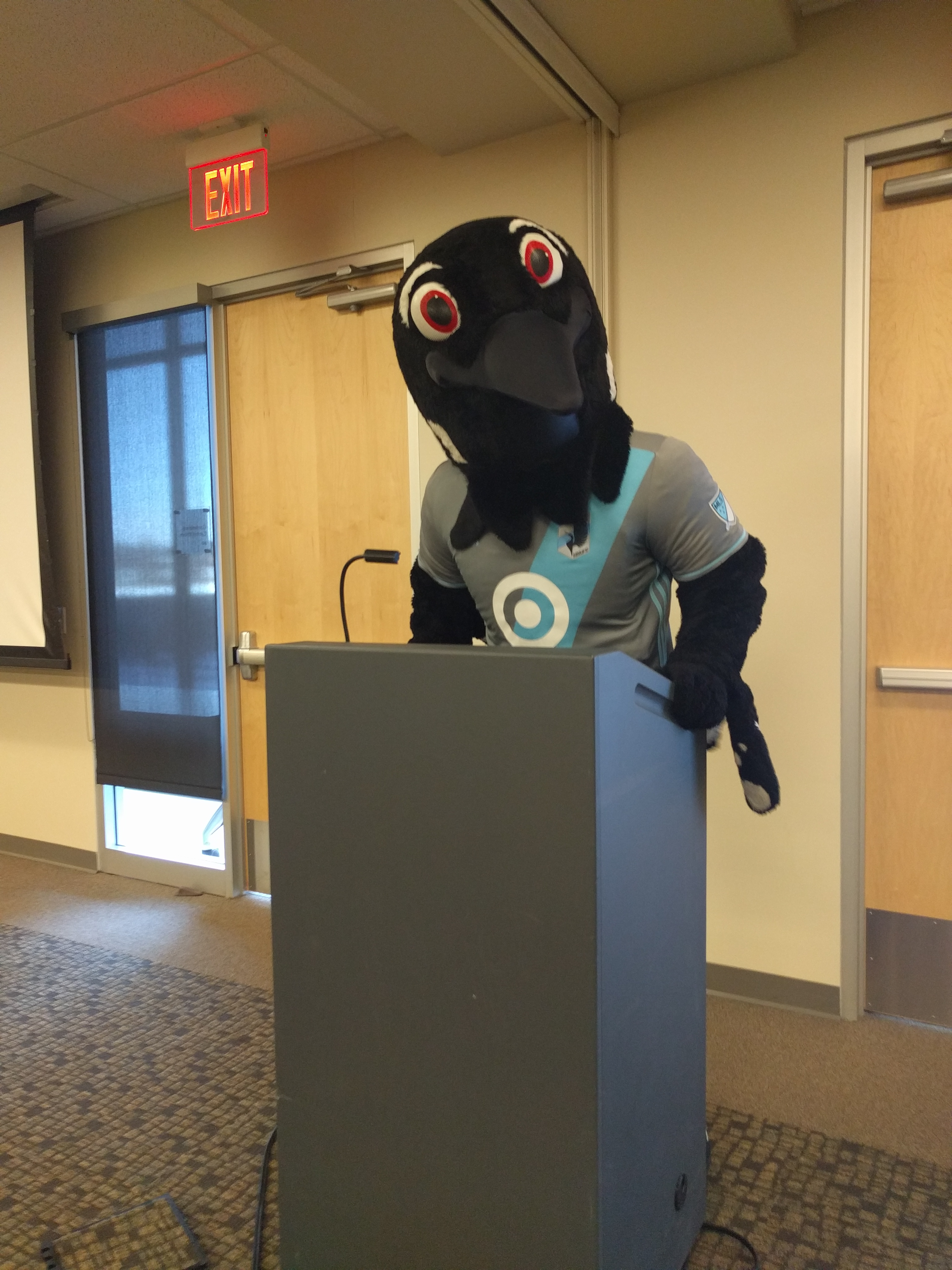 Mascot of Minnesota United FC. Appeared at MinneAnalytics SportCon 2018.